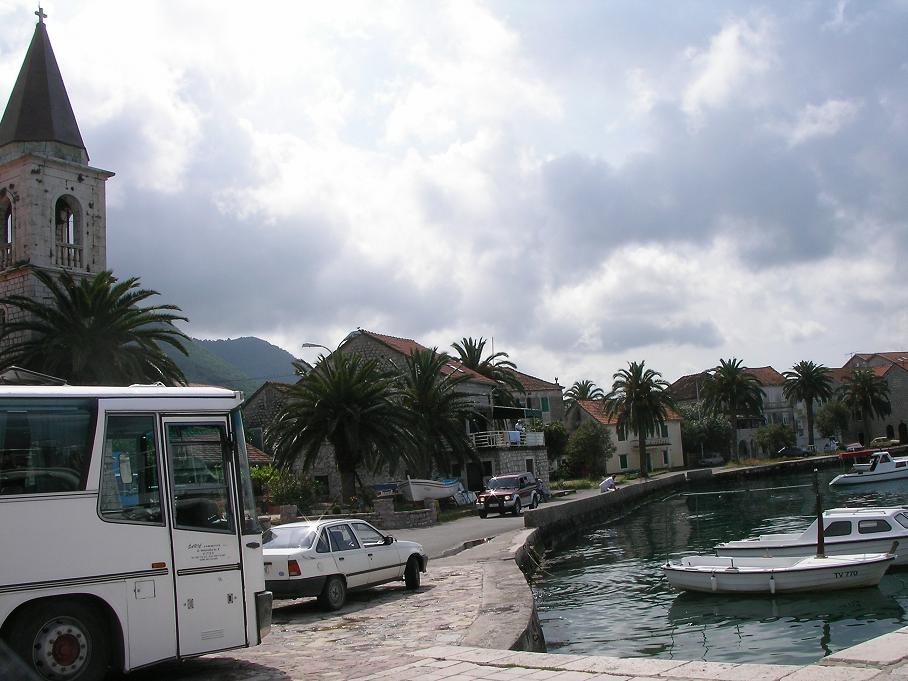 town of Tivat, Montenegro